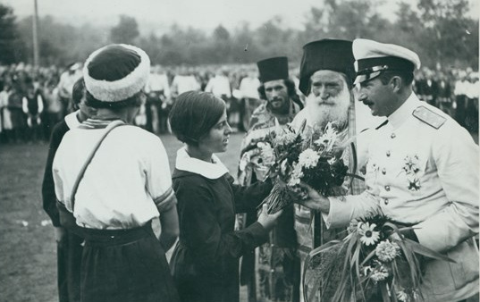 Boris III of Bulgaria in Berkovitsa, Bulgaria